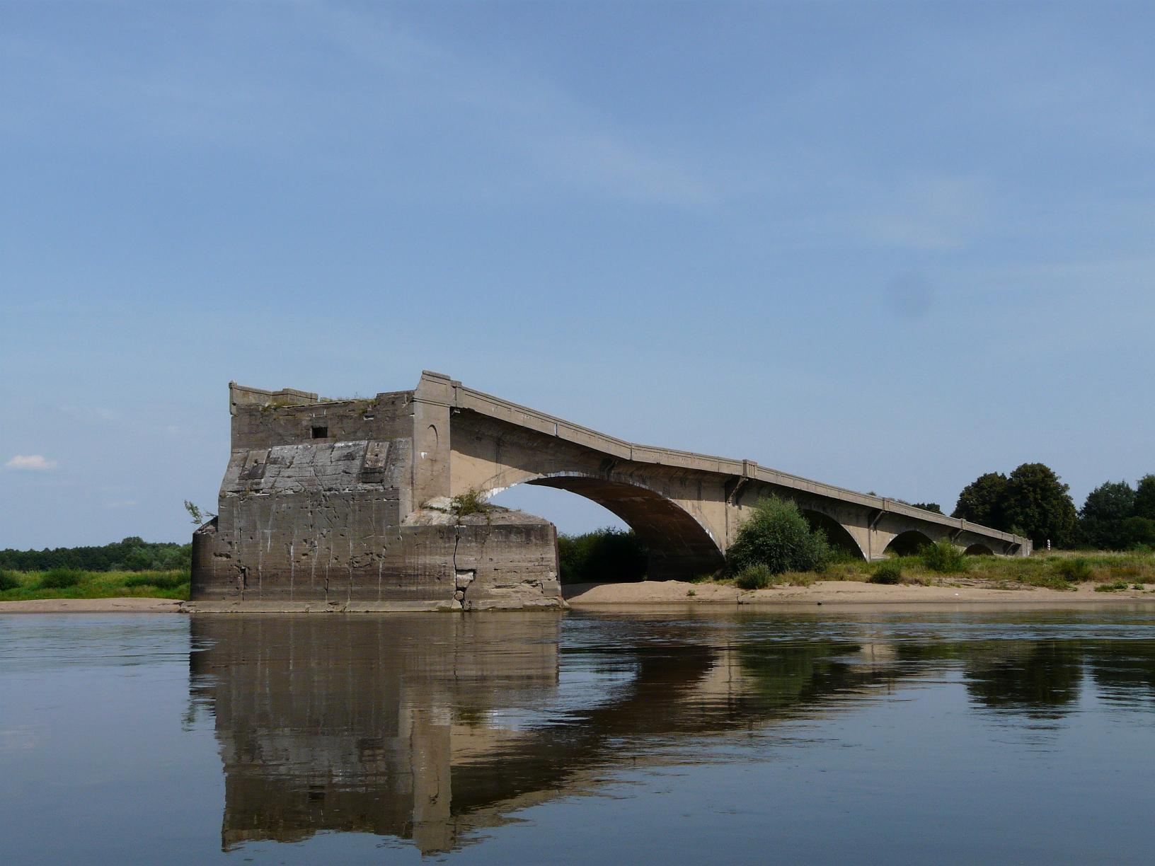 Destroyed Oder Bridge near Eisenhüttenstadt.